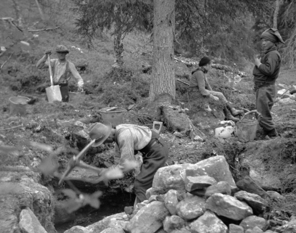 Sami people of the Purnumukka village digging gold in Tankavaara, Finland, 1934. Image by Max Peronius (1907-1946).